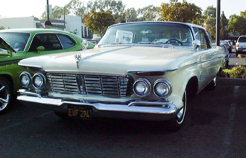 1963 Imperial Crown TY1-M Series.